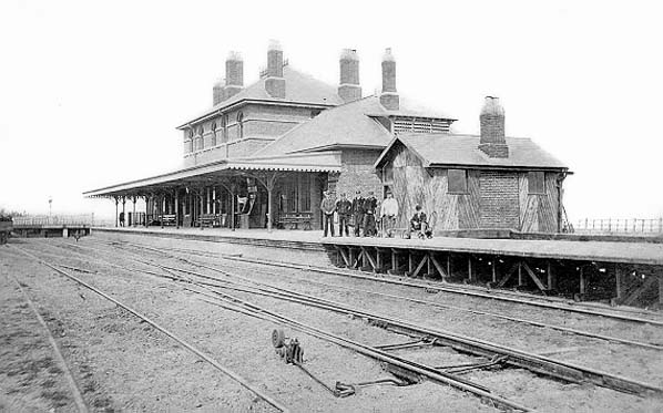 Cromer High railway station, circa 1878